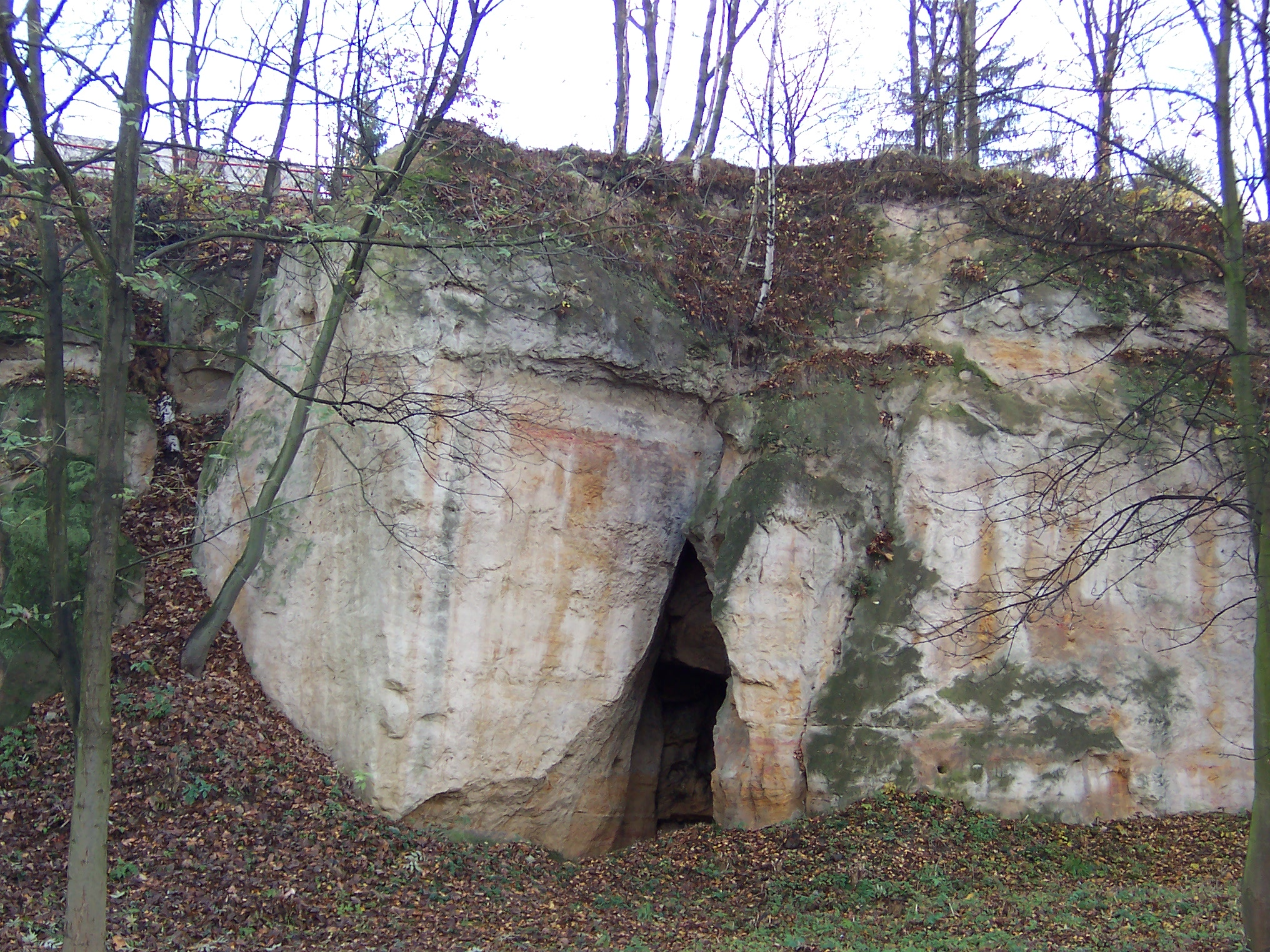 The natural monument Střešovické rocks in Prague 6, Czech Republic.